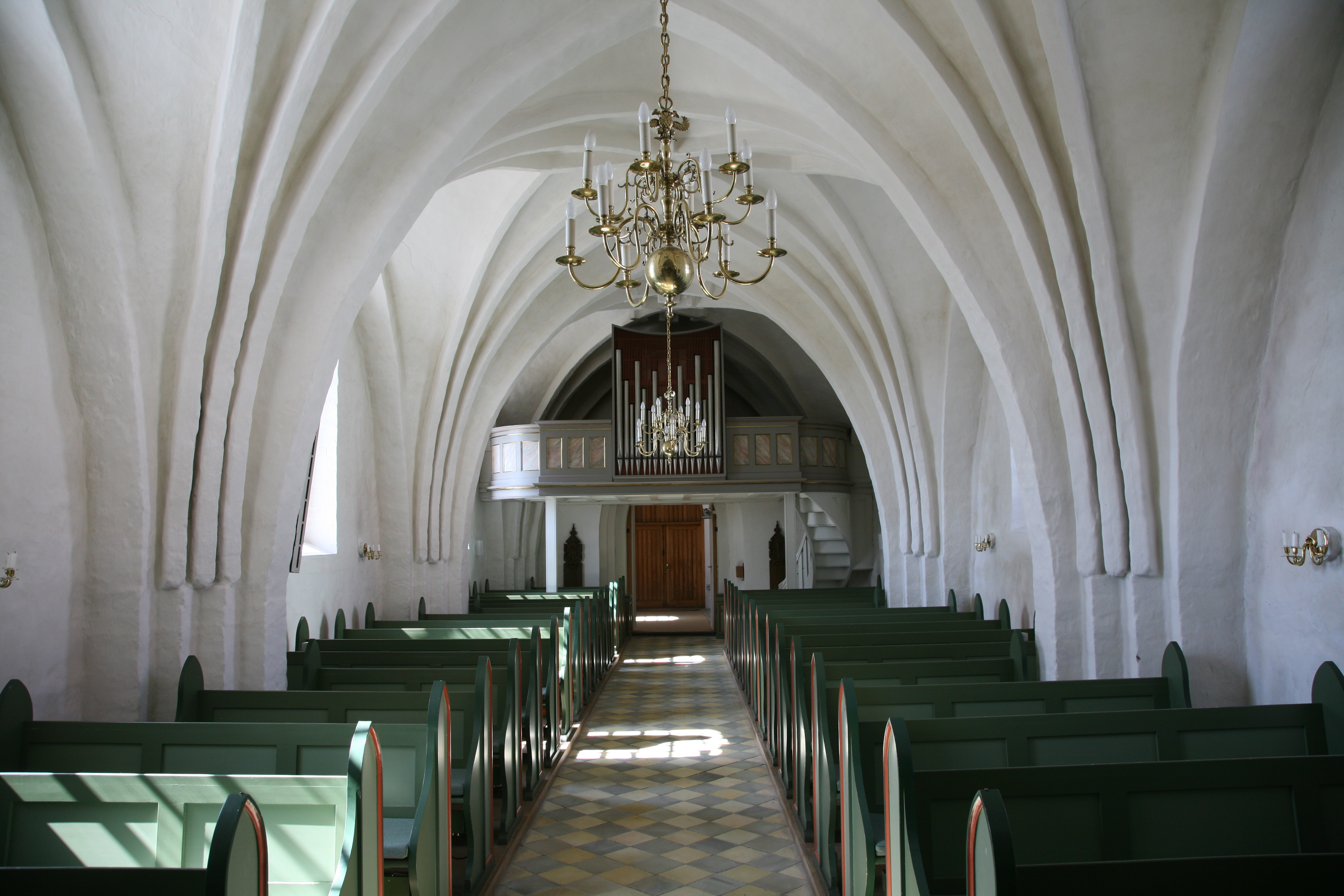 Fyrendal church in Denmark